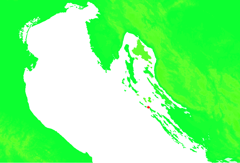 Island of Croatia Croatia - Ist.PNG